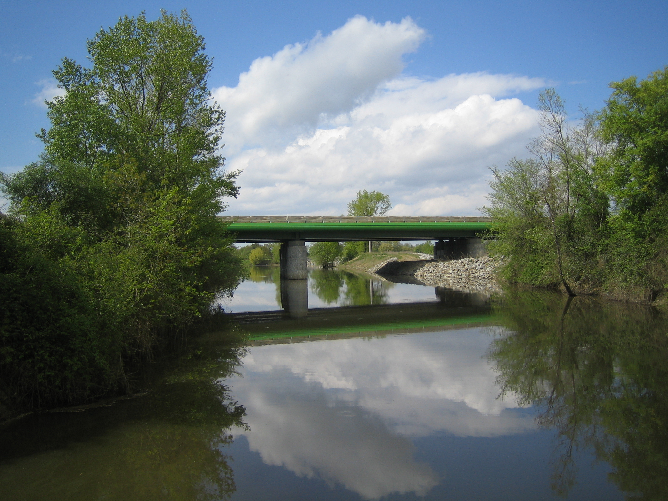 Aire-sur-l'Adour (France), the new bridge on the river Adour